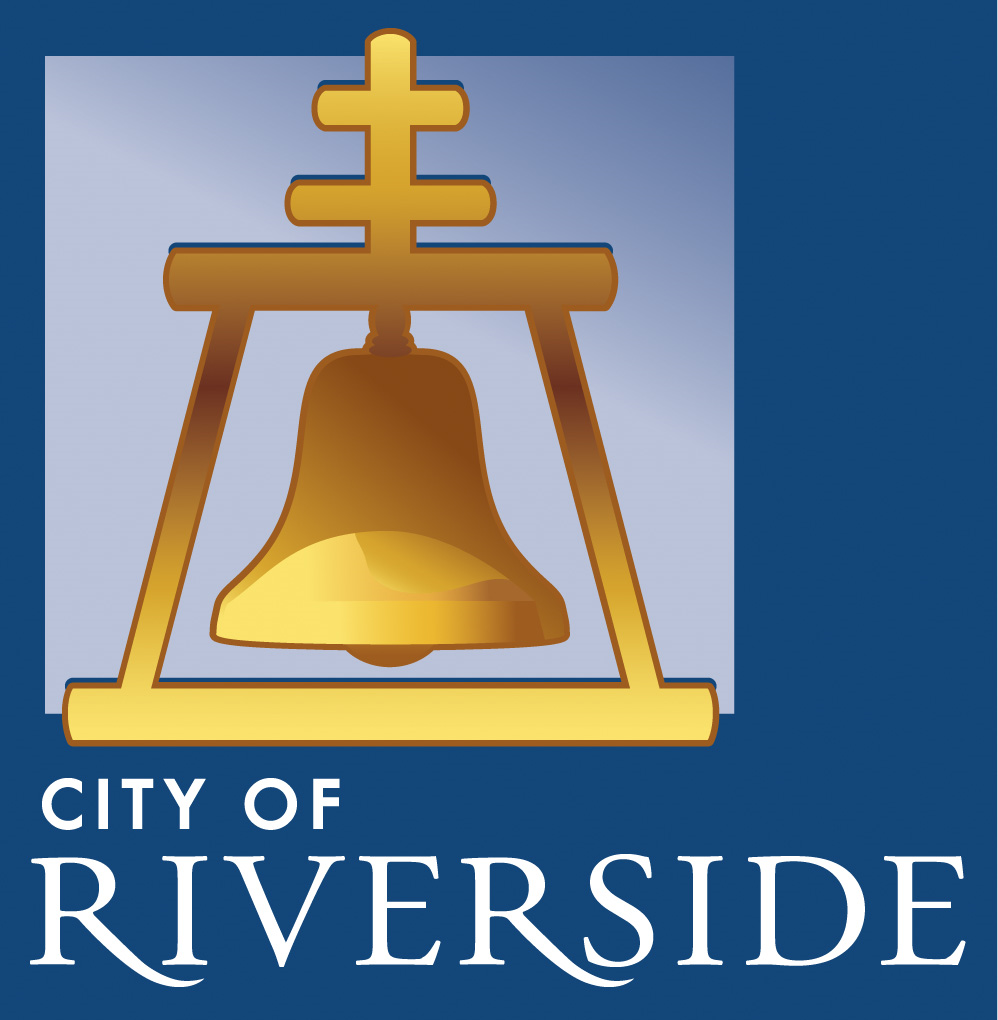 The city seal of Riverside, California. information about the seal can be found here.